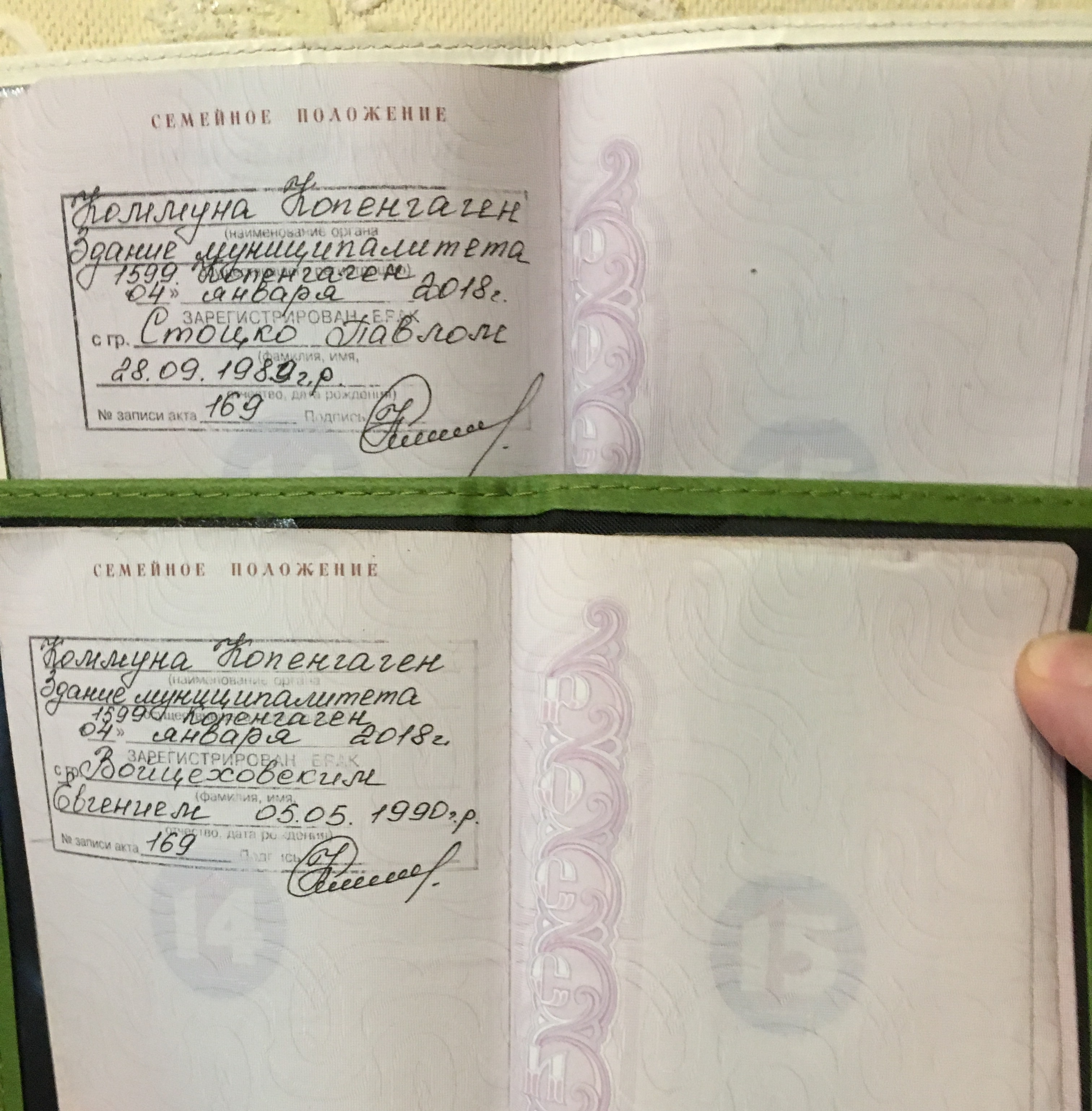 Official marks in passports of citizens of the Russian Federation on state registration of same-sex marriage concluded between two men, citizens of Russia, in Copenhagen